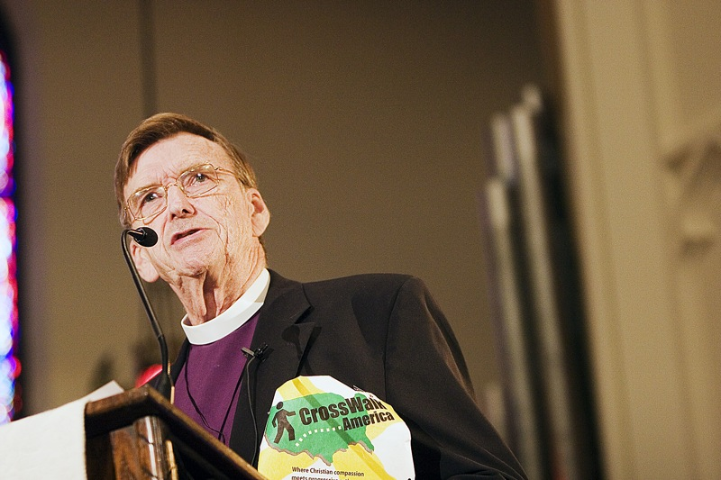 Bishop John Shelby Spong, Episcopal Diocese of Newark, speaking during CrossWalk America 2006.